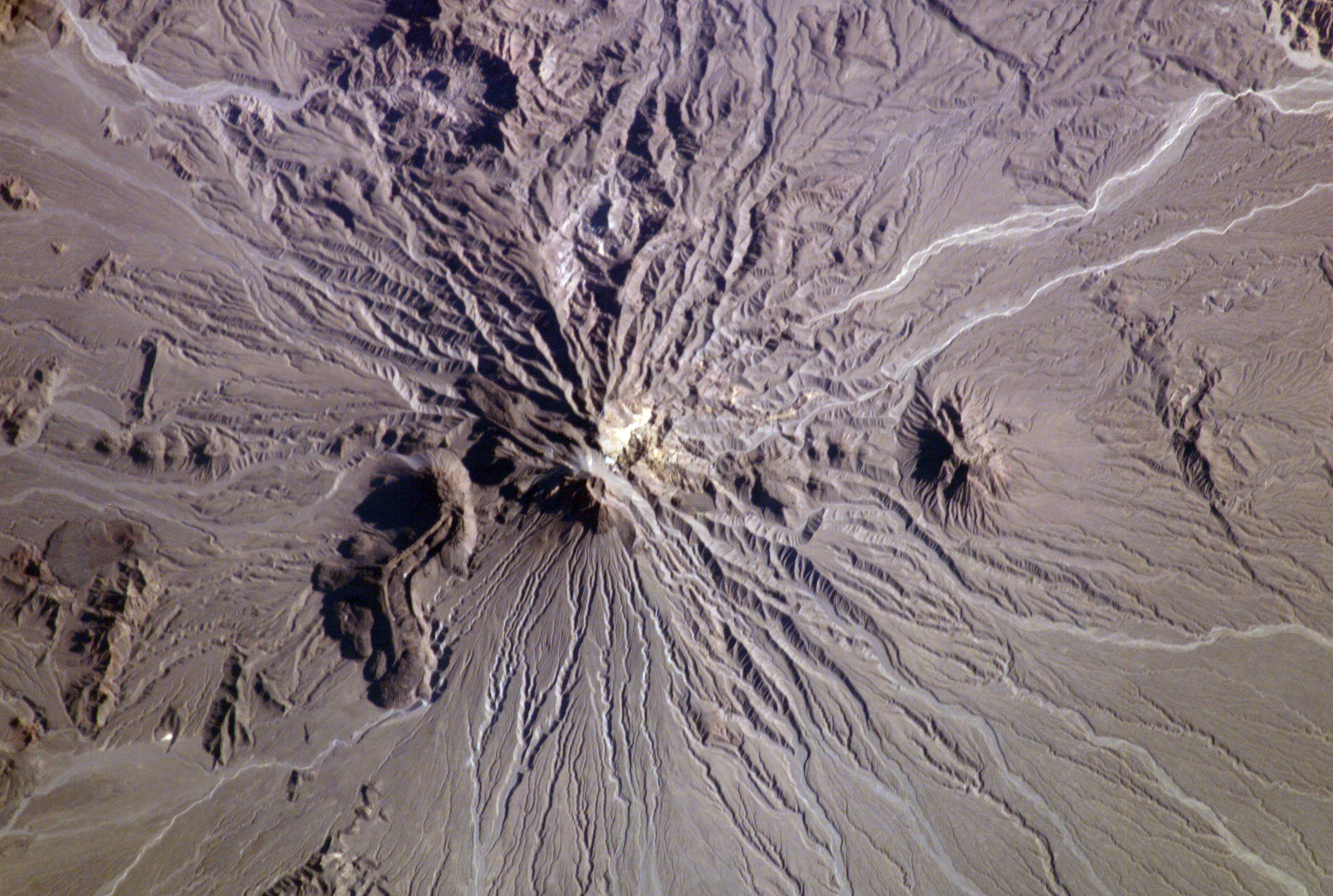 NASA Space Shuttle image of Bazman (Kuh-e Bazman), a 3490-m-high stratovolcano in a remote and arid region in SE Iran. A well-preserved, 500-m-wide crater caps the summit of the volcano. Sistan and Baluchestan Province, Iran